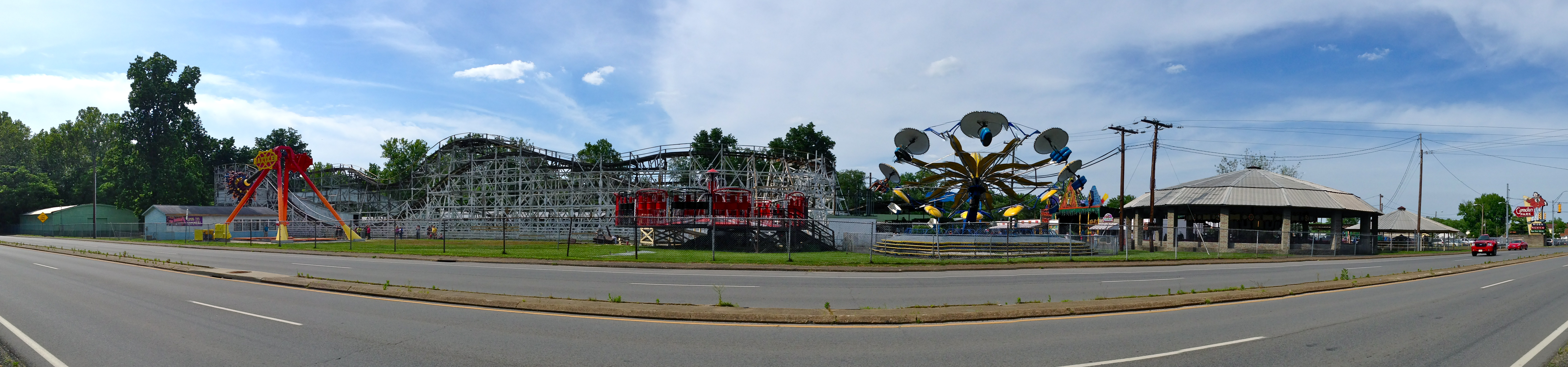 Panorama of Camden Park in Huntington, WV.